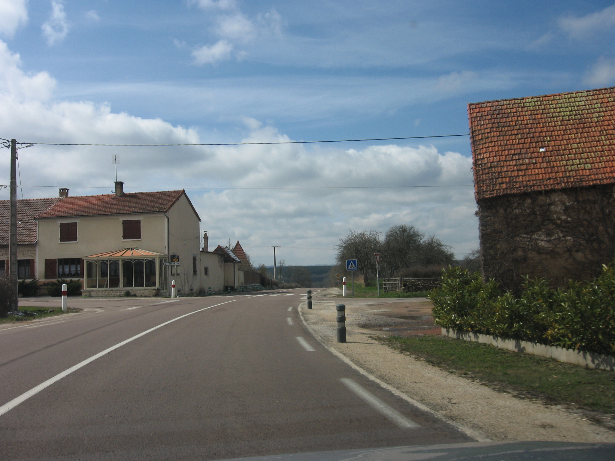 Fontaine, place near Arnay-le-Duc